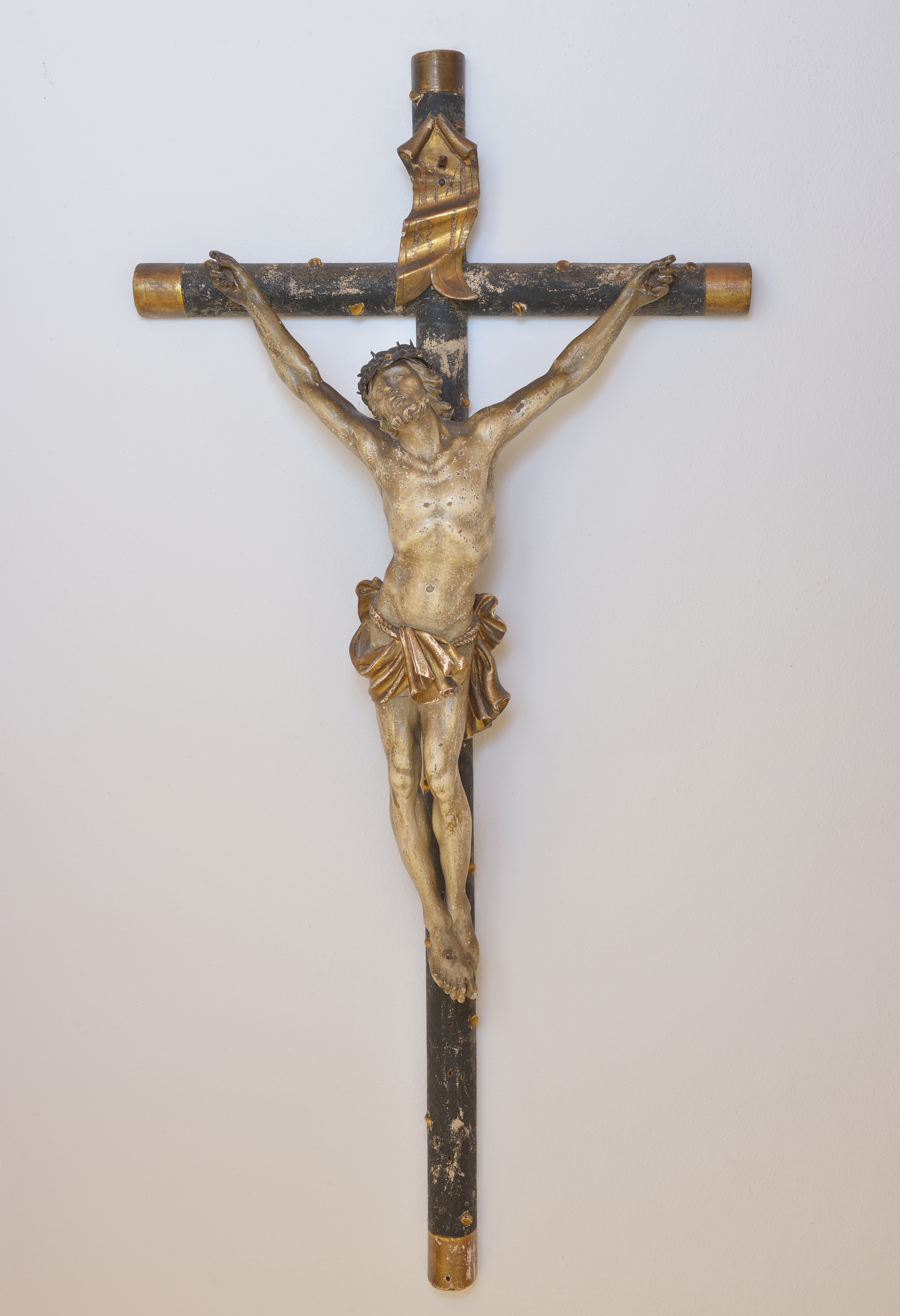 Crucifix by Franz Grünwald da Nudrëi from St. Ulrich in Gröden - Ortisei Val Gardena.